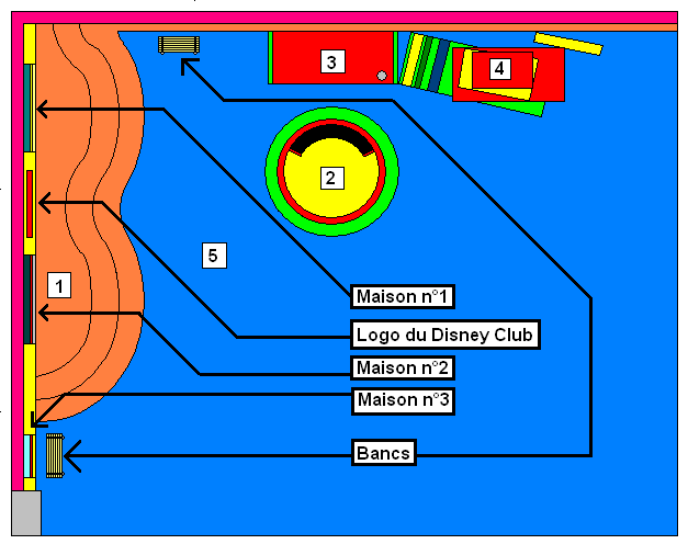 Corrected picture of the main map of the tv programme Disney Club.